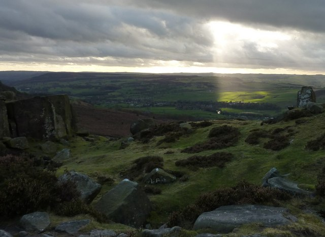 God's Searchlight A brief break in the clouds and the sun shines on Bubnell, Baslow